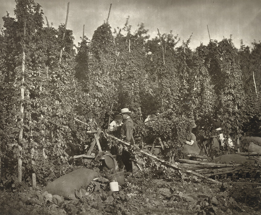 "Hop-Picking in Kent," black and white photographic print, by the British photographer Stephen Thompson. Dated 1875. Shows people picking hops in County Kent, England. Courtesy of the British Library, London.